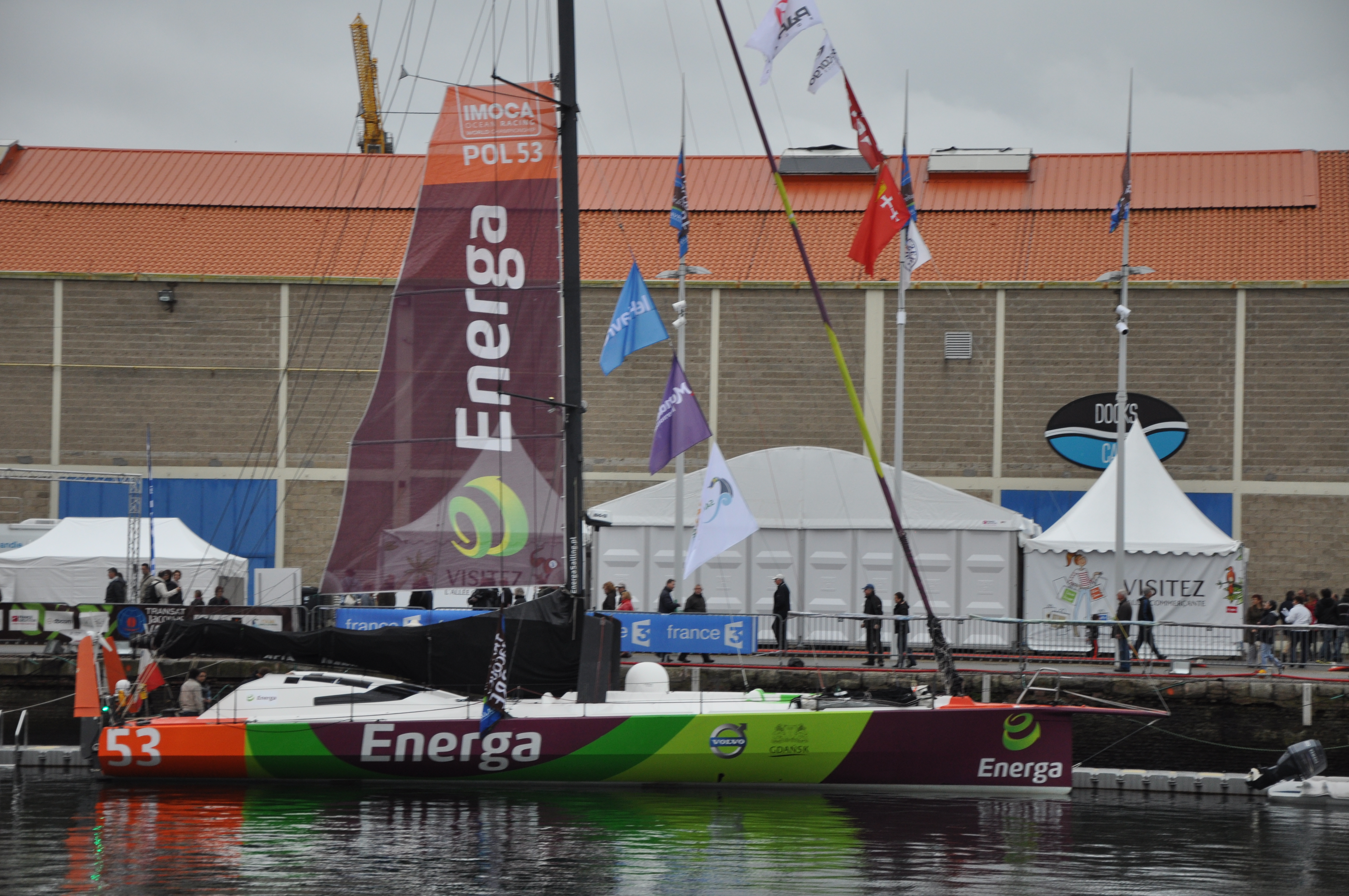 Le Havre (France, Normandy): Energa (ship, 2007), Transat Jacques Vabre 2013